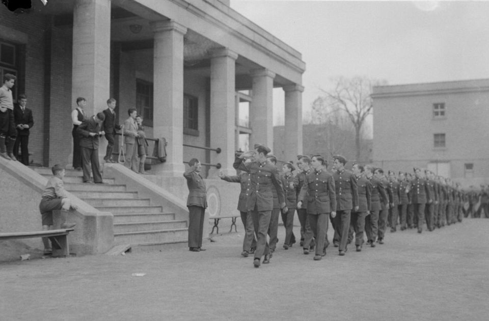 The Air Cadet Jean-de-Brébeuf College march. This college is located at 3200 Côte-Sainte-Catherine in Montreal.